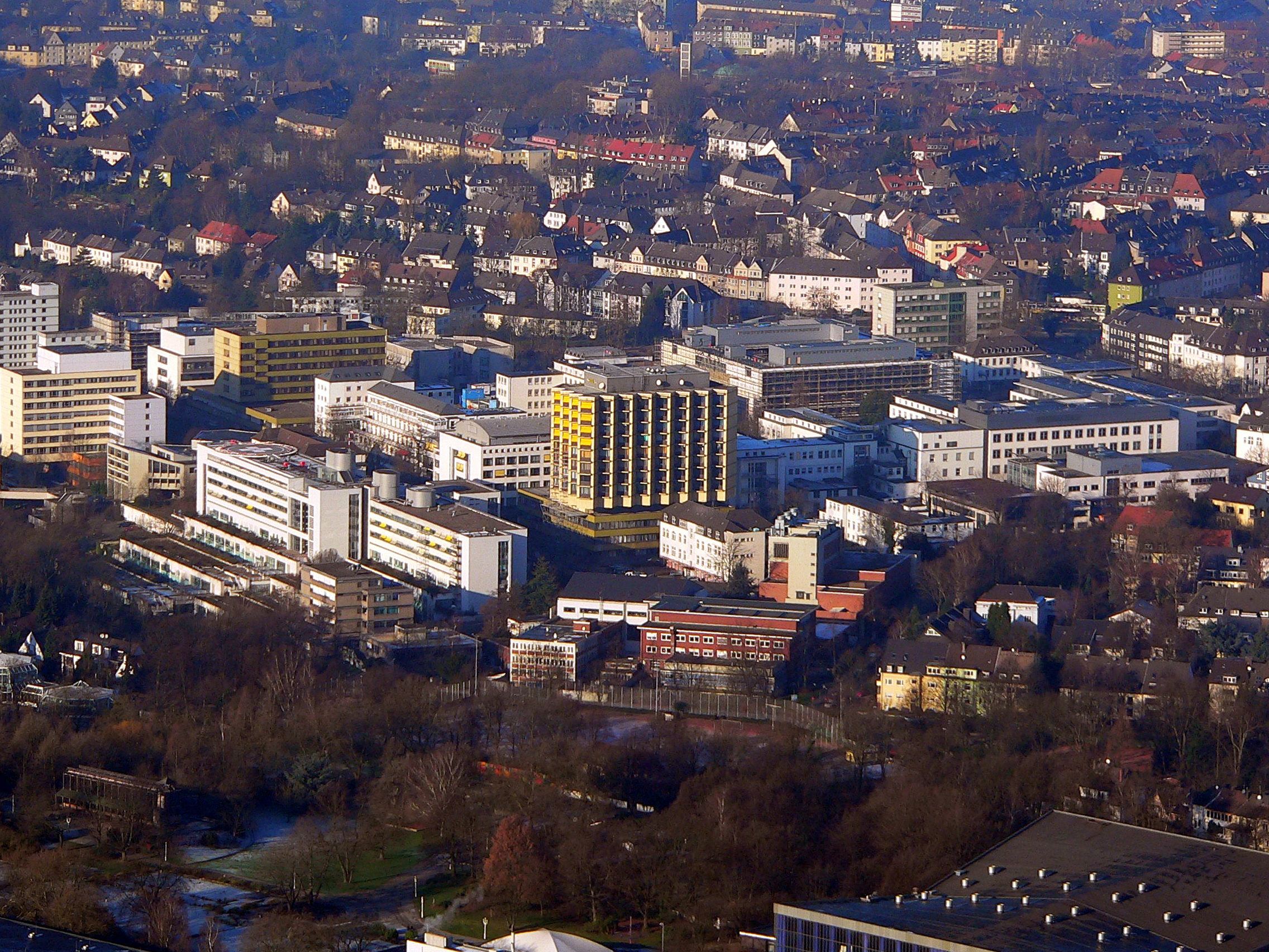 University hospital, Essen, Germany